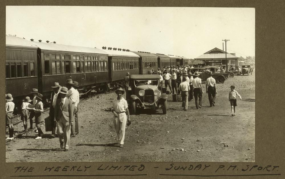 Weekly Limited train arriving at Mount Isa, 1931.